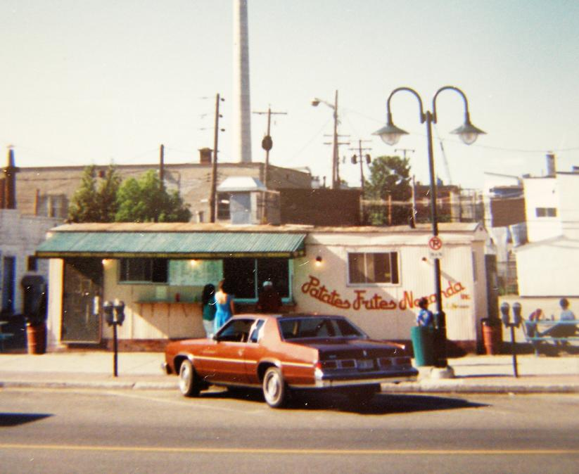 Patates Frites Noranda also known as "Chez Morasse" (Rouyn-Noranda, summer 1989)